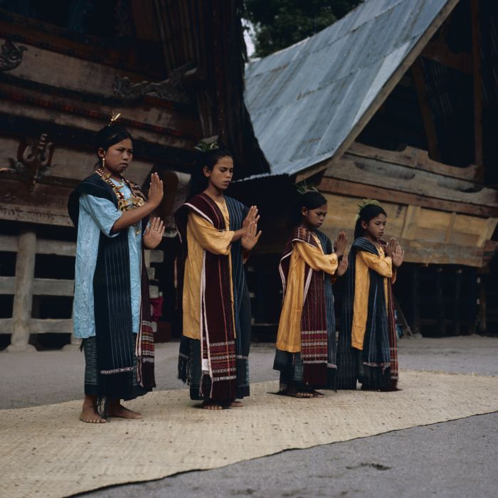 Si gale gale dance